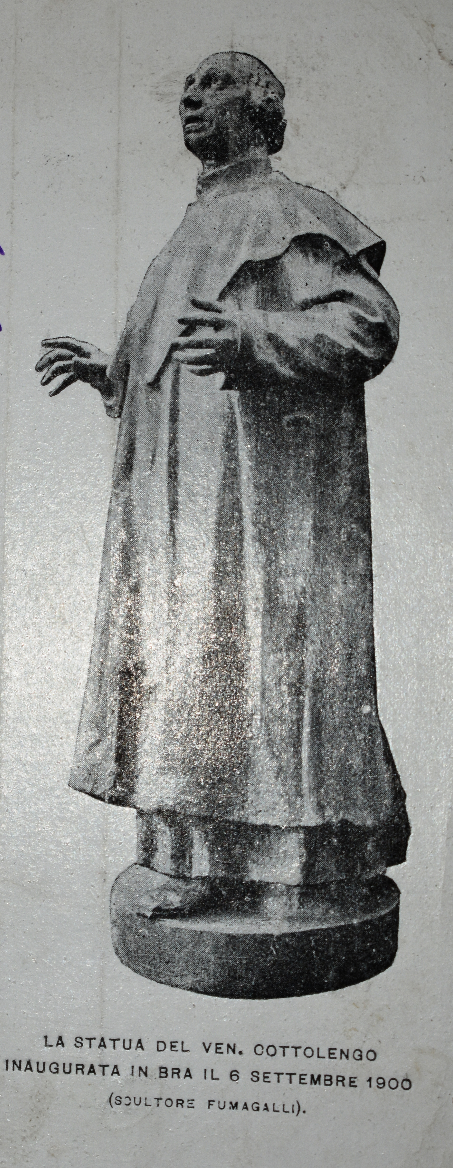 Statue of Giuseppe Benedetto Cottolengo, by Celestino Fumagalli.